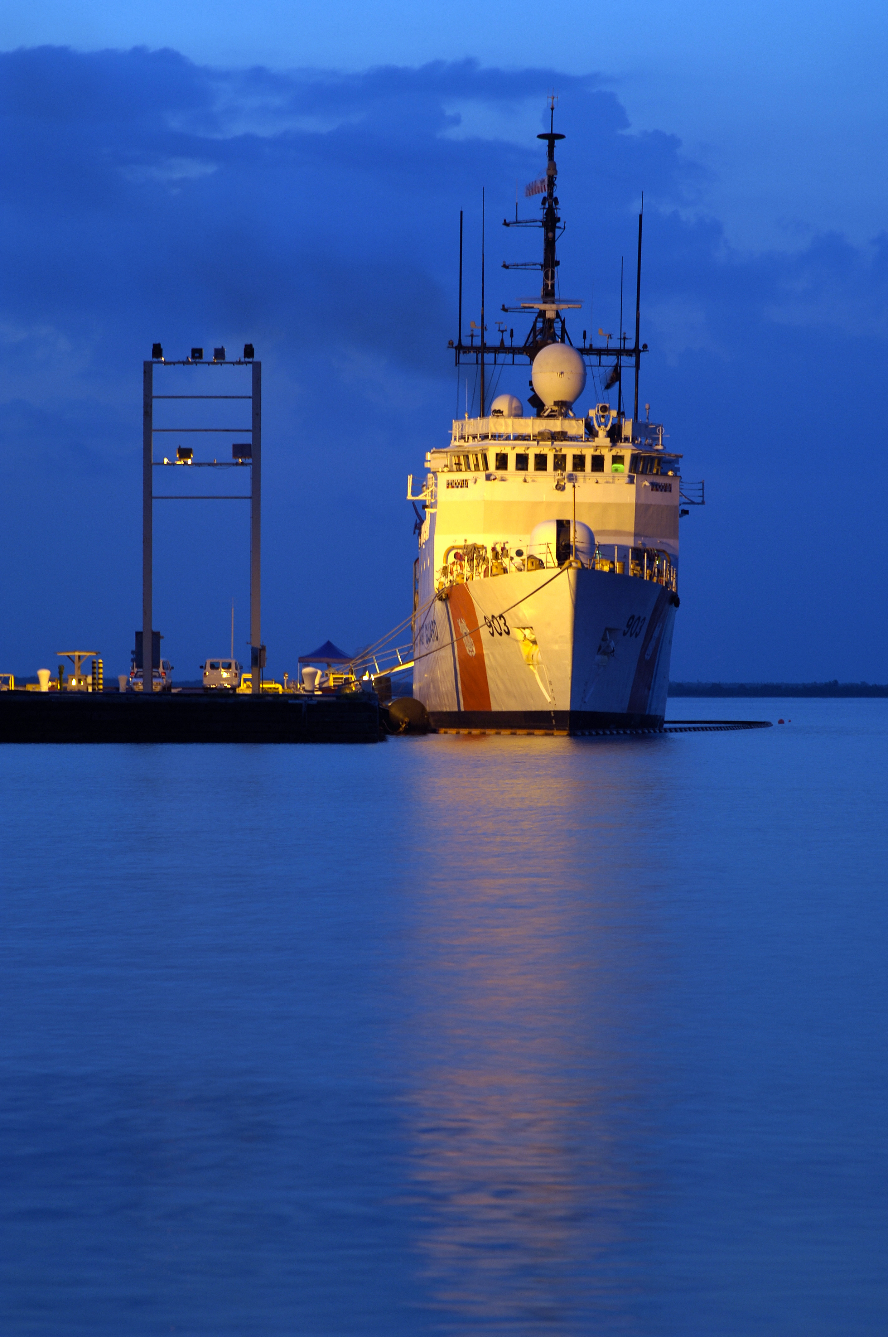 050620-N-6939M-015 Guantanamo Bay, Cuba (June 20, 05) - U.S. Coast Guard Cutter Harriet Lane WMEC 903 moored at U.S. Naval Station Guantanamo Bay (GTMO), Cuba pier Bravo. The Harriet Lane's primary responsibility is counter drug operations in the Caribbean.